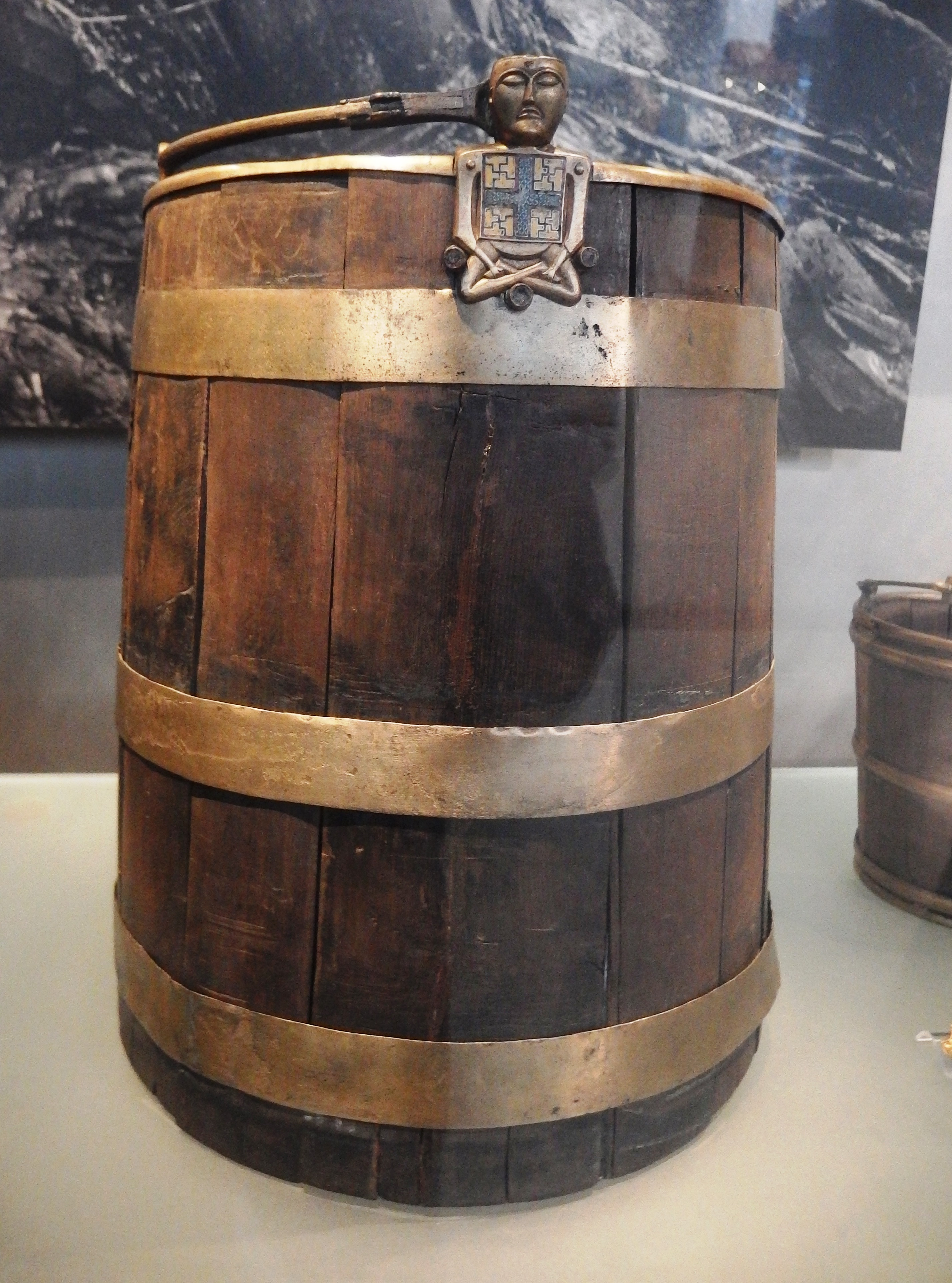 Viking Ship Museum in Oslo by Arnstein Arneberg, completed in 1926. It is part of the Museum of Cultural History of the University of Oslo, and houses archaeological finds from Tune, Gokstad, Oseberg and the Borre mound cemetery.